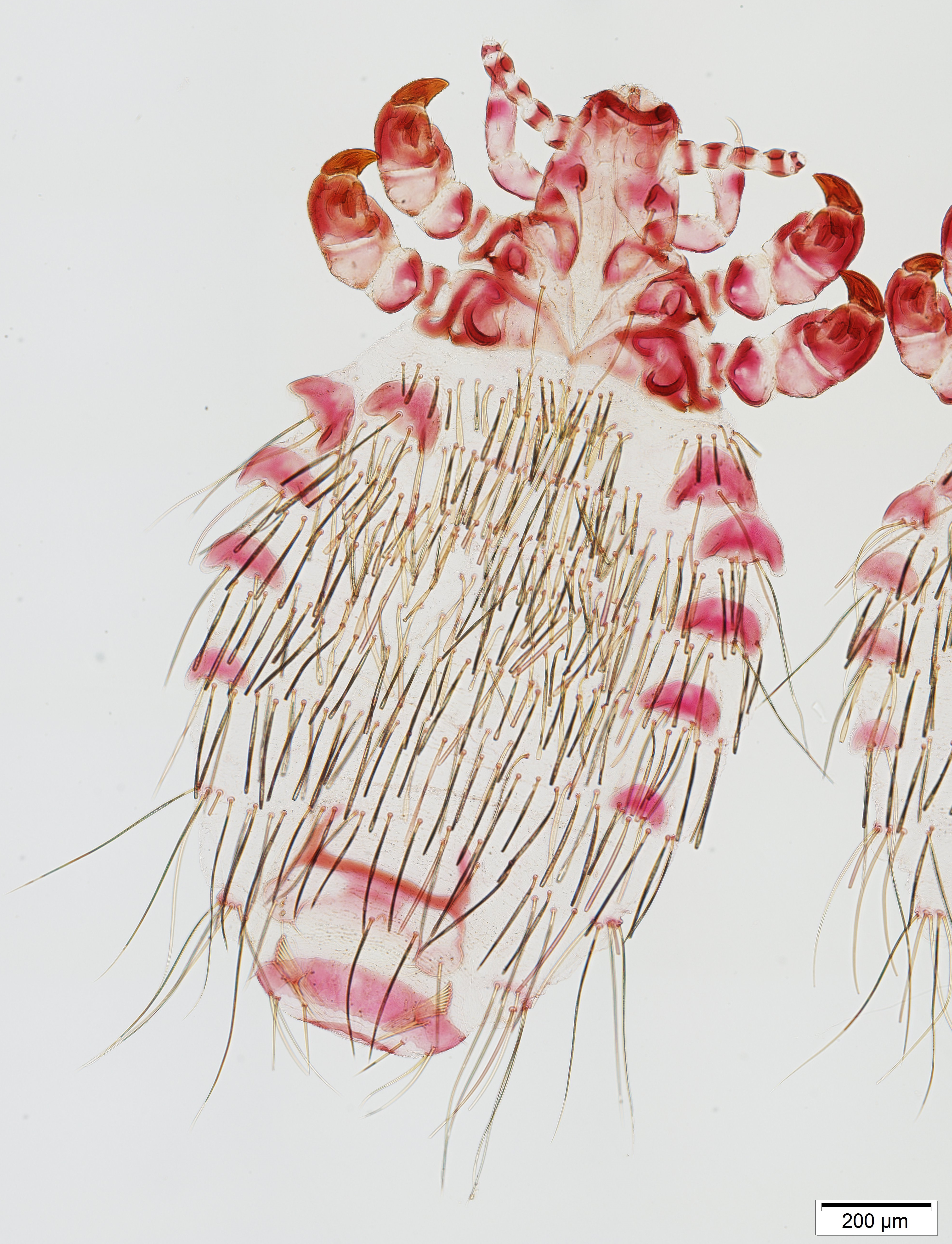 Eulinognathus denticulatus (Anoplura: Polyplacidae). Collected from Pedetes capensis, the South African Springhare, in Transvaal, South Africa, 1963.